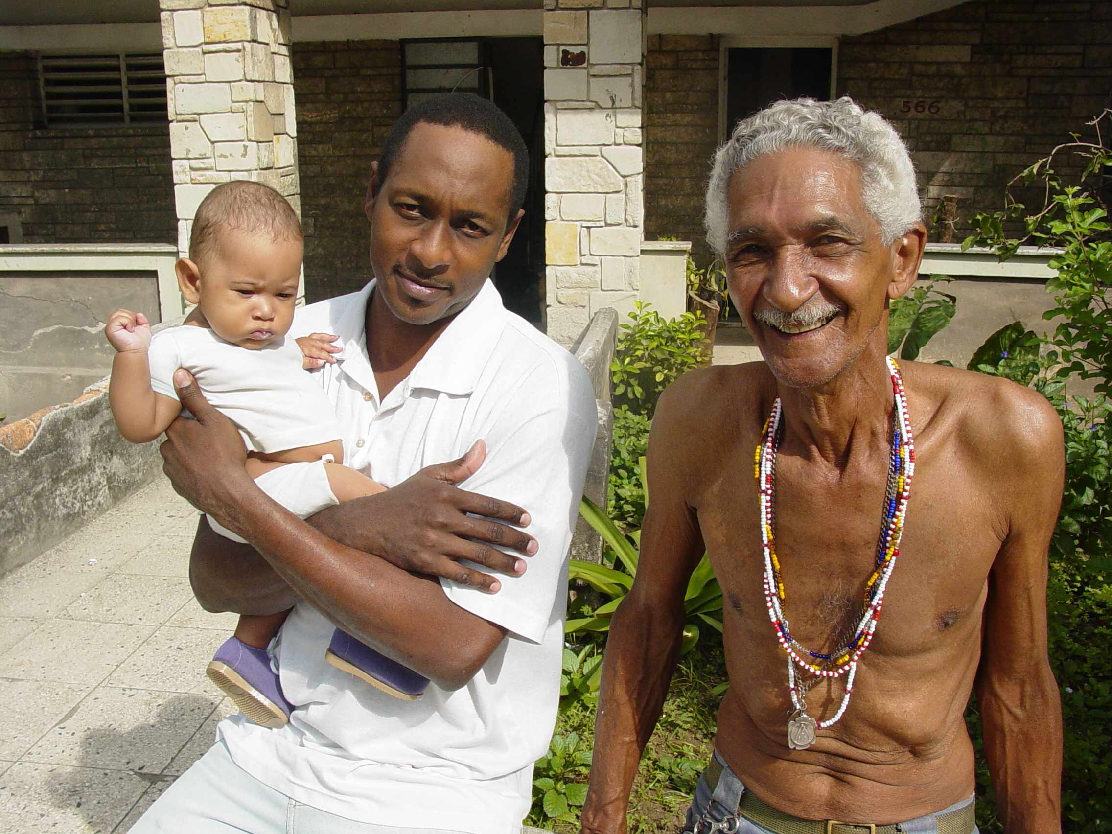 Three generations in Centro Habana, Havana, Cuba. January 2003.